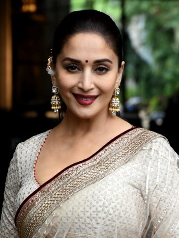 Madhuri Dixit snapped on sets Dance Deewane, Aug 20, 2018